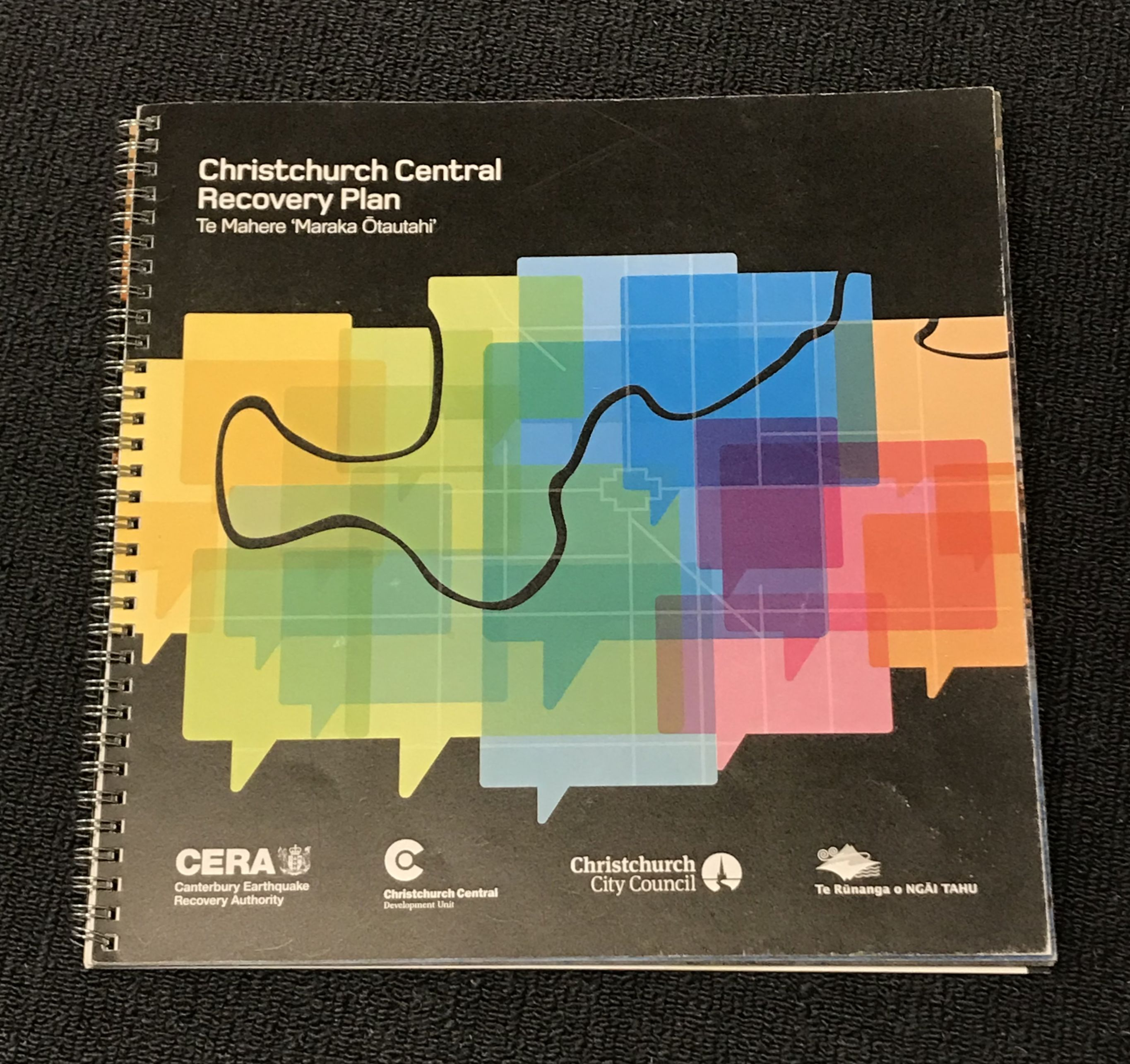 Hardcopy of the July 2012 Christchurch Central Recovery Plan. The document itself is CC-SA-3.0 hence the graphic on the cover can be uploaded.